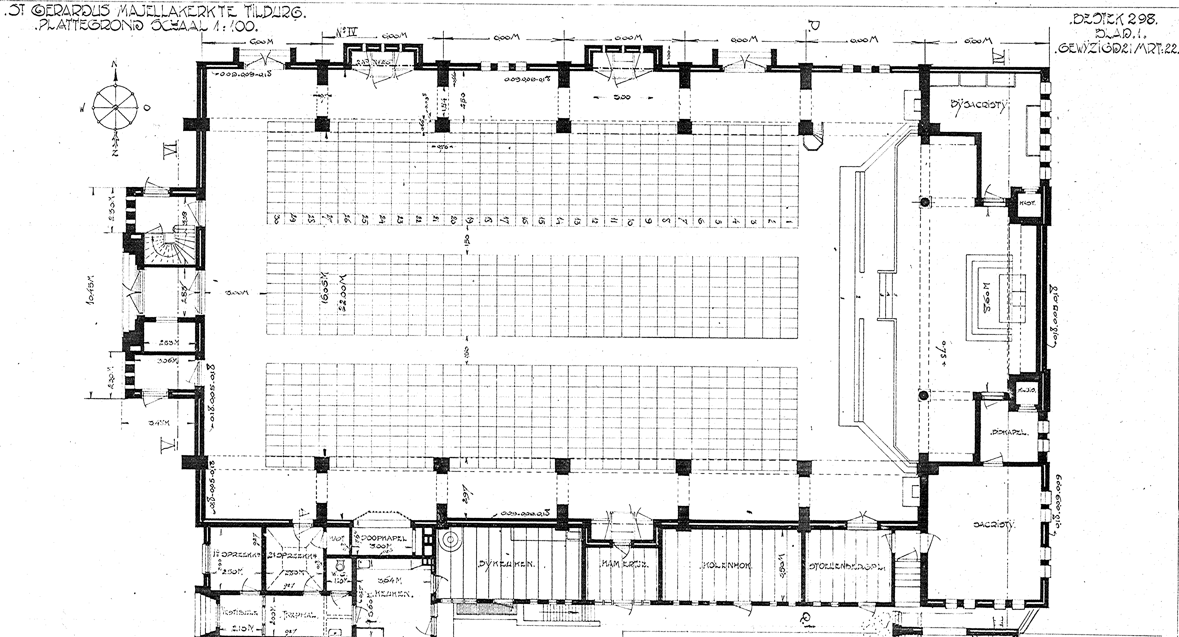 Blueprint of the Gerardus Majellakerk in Tilburg